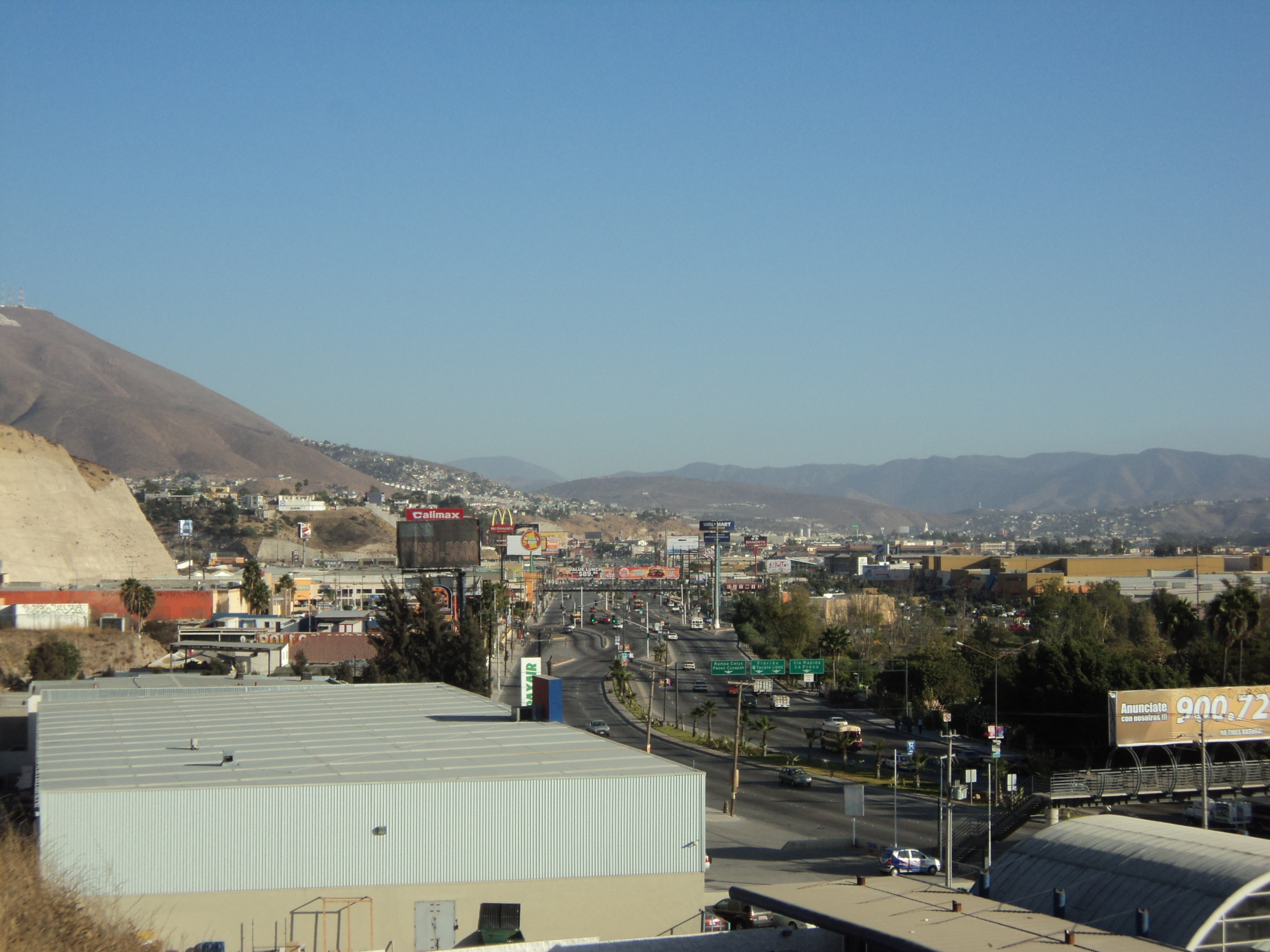 BULEBAR INSURJENTES TIJUANA